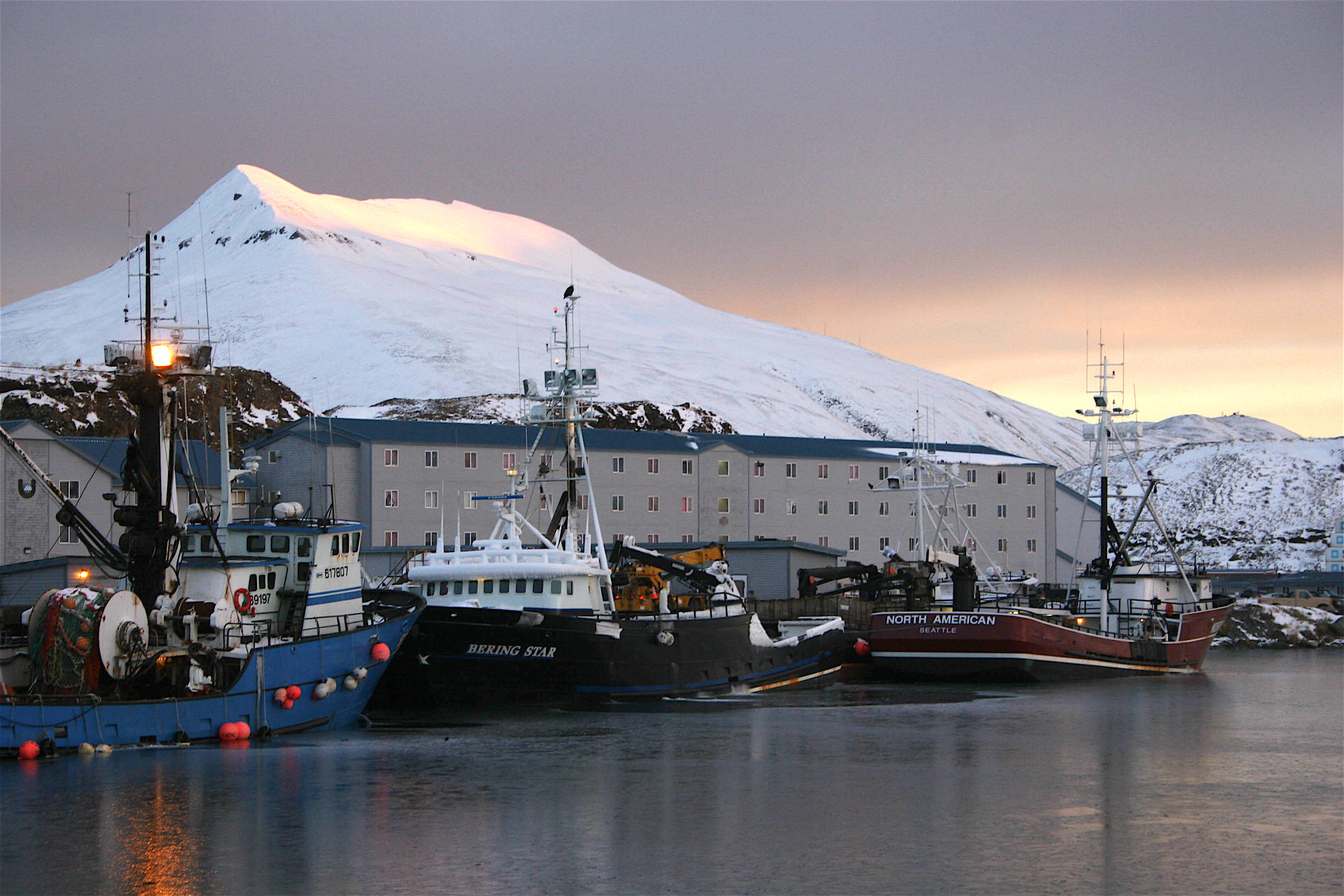 Crab boats moored in Dutch Harbor, AK with Mount Ballyhoo in the background.